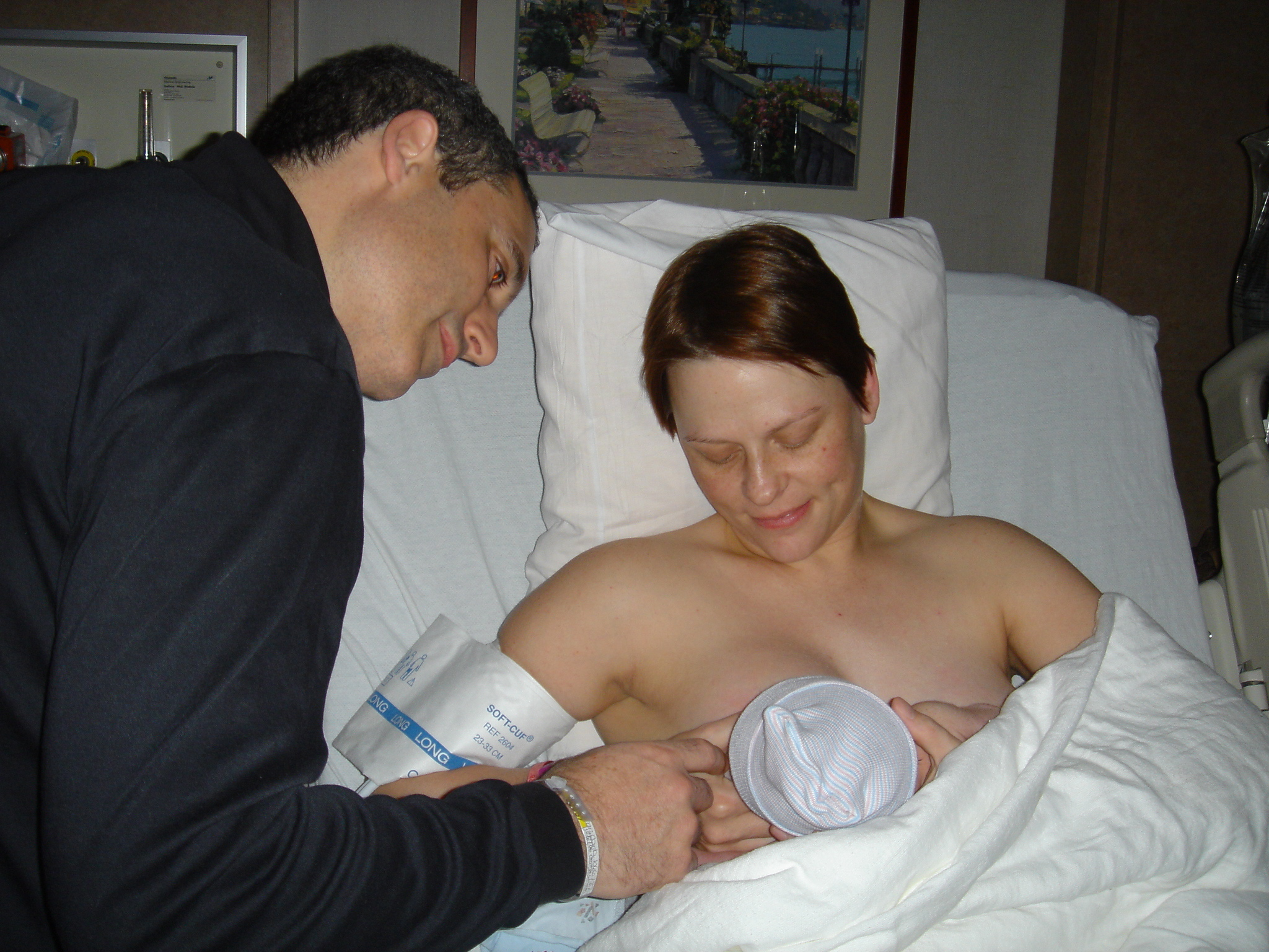 Woman breastfeeding